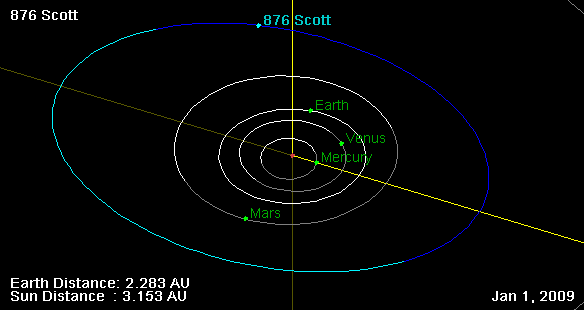 876 Scott orbit, and his position on 01 Jan 2009 (NASA Orbit Viewer applet)